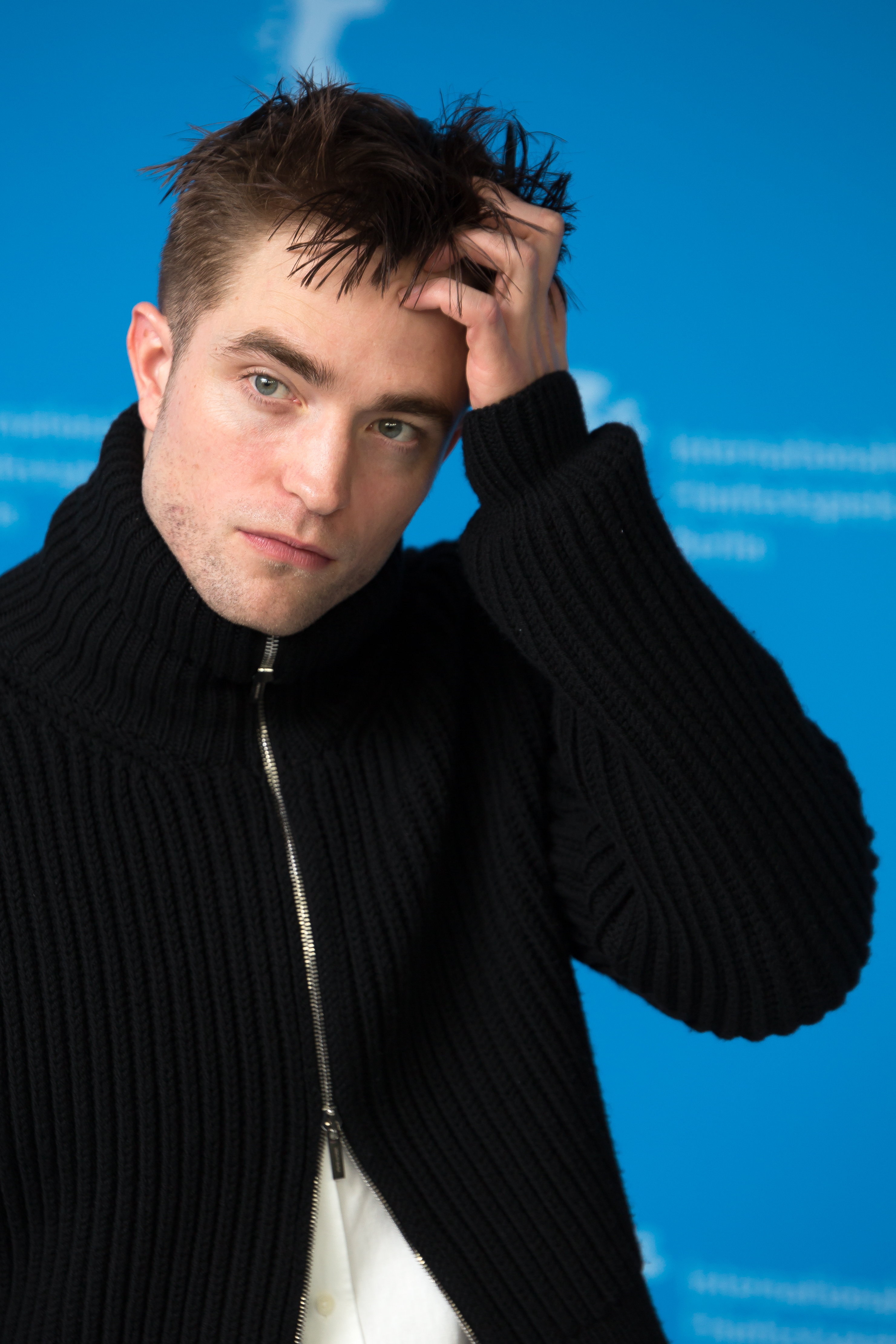 Actor Robert Pattinson at the presentation of The Lost City of Z at the Berlinale 2017